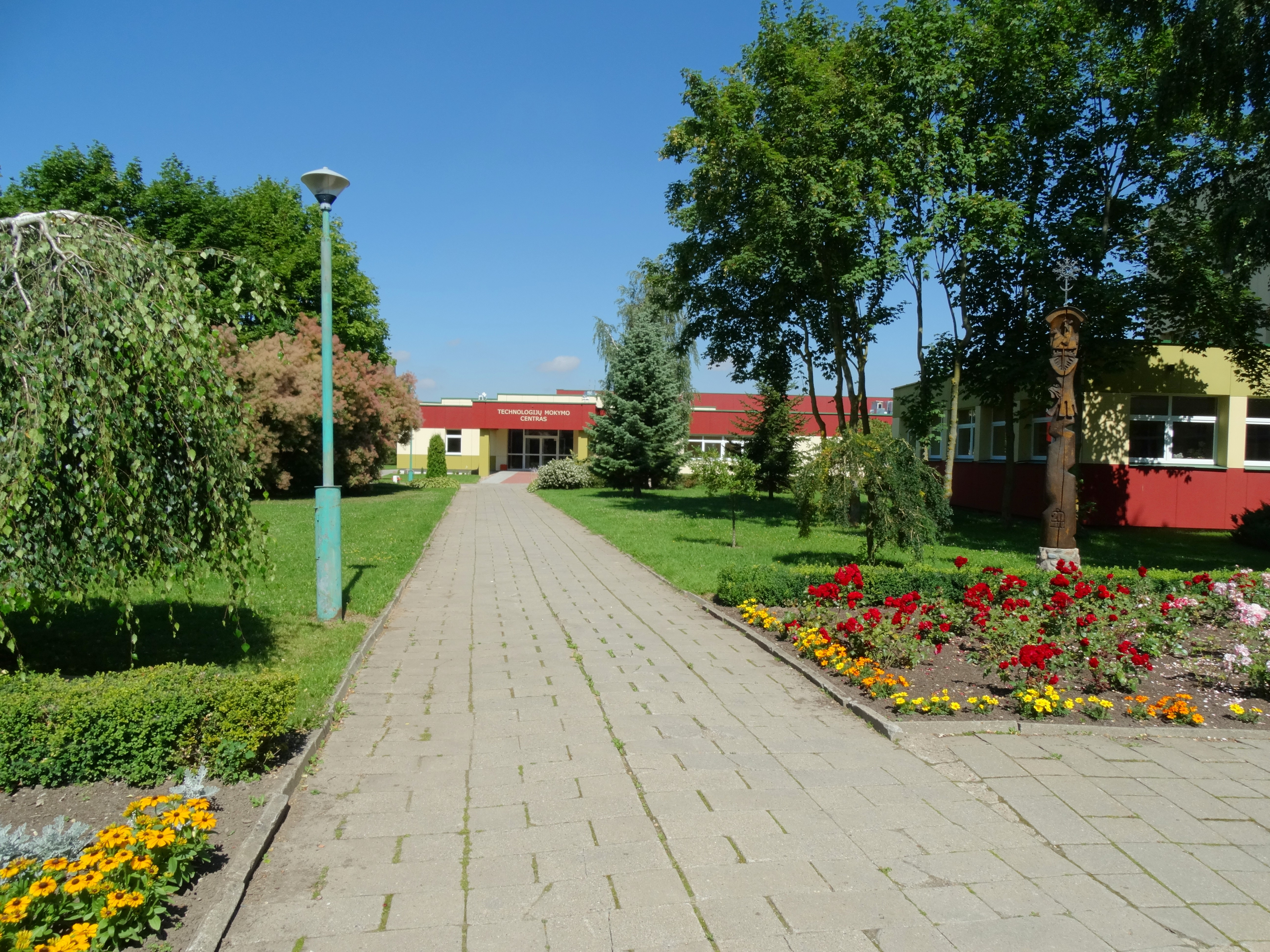 Joniškis Agricultural School, Lithuania